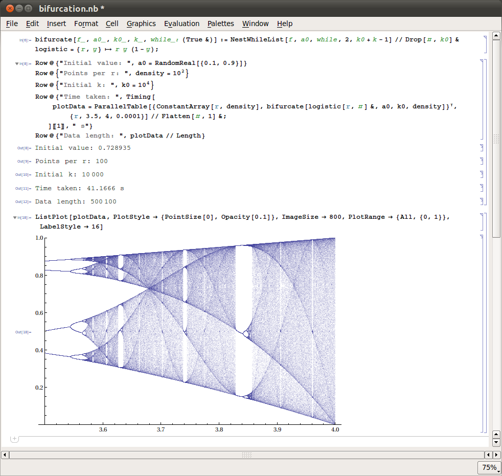 The image shows the Mathematica 8.0.0 (GNU/Linux) frontend, in which the bifurcation diagram of the logistic map is calculated.